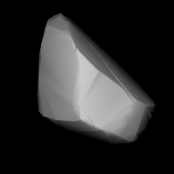 3D convex shape model of 1925 Franklin-Adams, computed using light curve inversion techniques. J. Hanuš, J. Ďurech, M. Brož, B. D. Warner (June 2011). "A study of asteroid pole-latitude distribution based on an extended set of shape models derived by the lightcurve inversion method". Astronomy and Astrophysics 530: A134. ISSN 0004-6361. arXiv